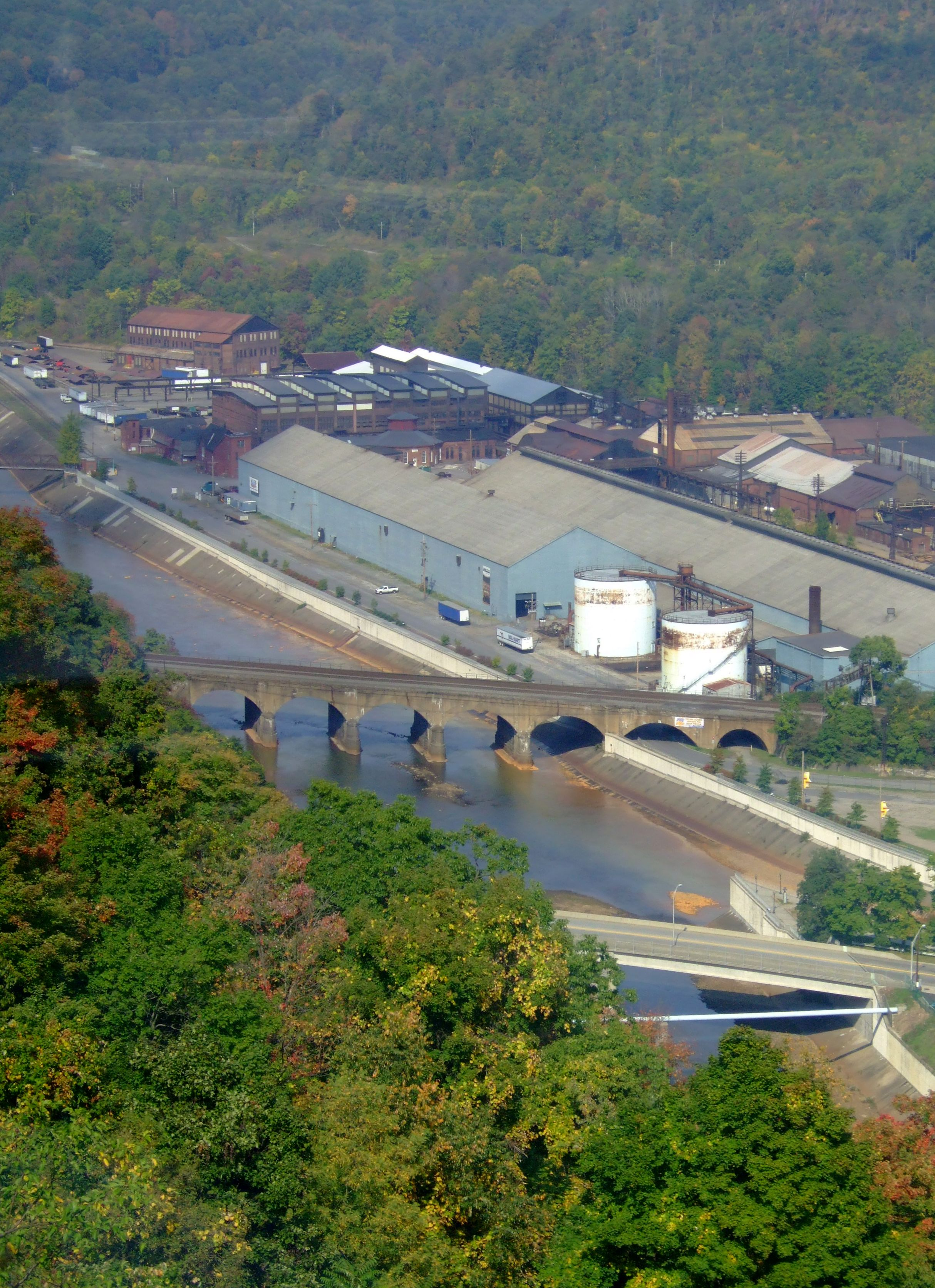 The Stone Bridge in Johnstown, Pennsylvania. Self made photo.